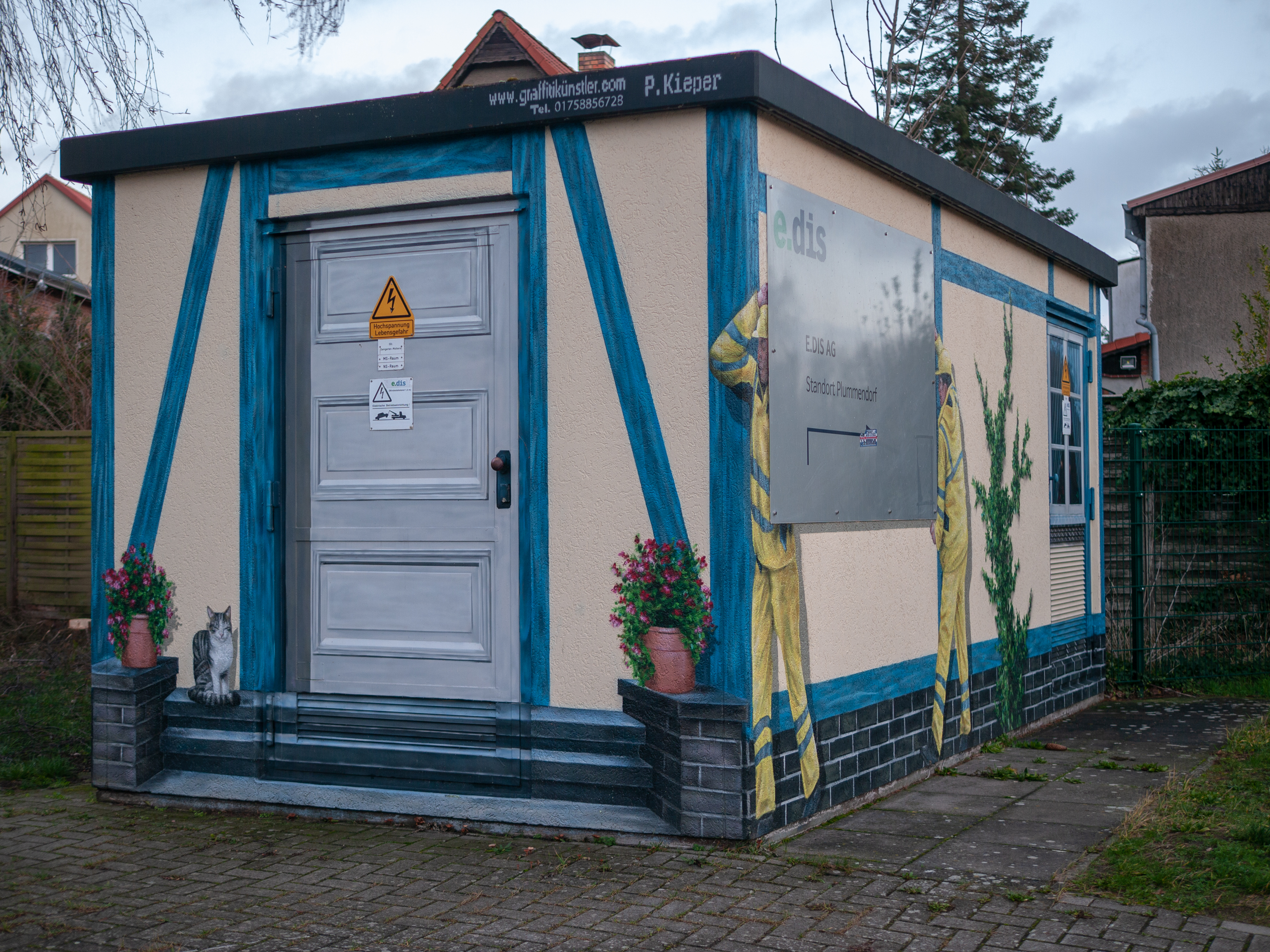 E.Dis distribution substation in Damgarten